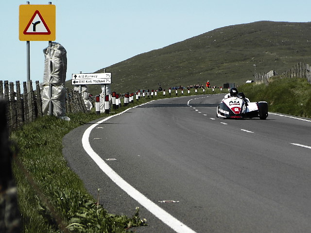 Sidecar racing at Brandywell, Isle of Man, looking North along A18 during Sidecar B race at TT 2005